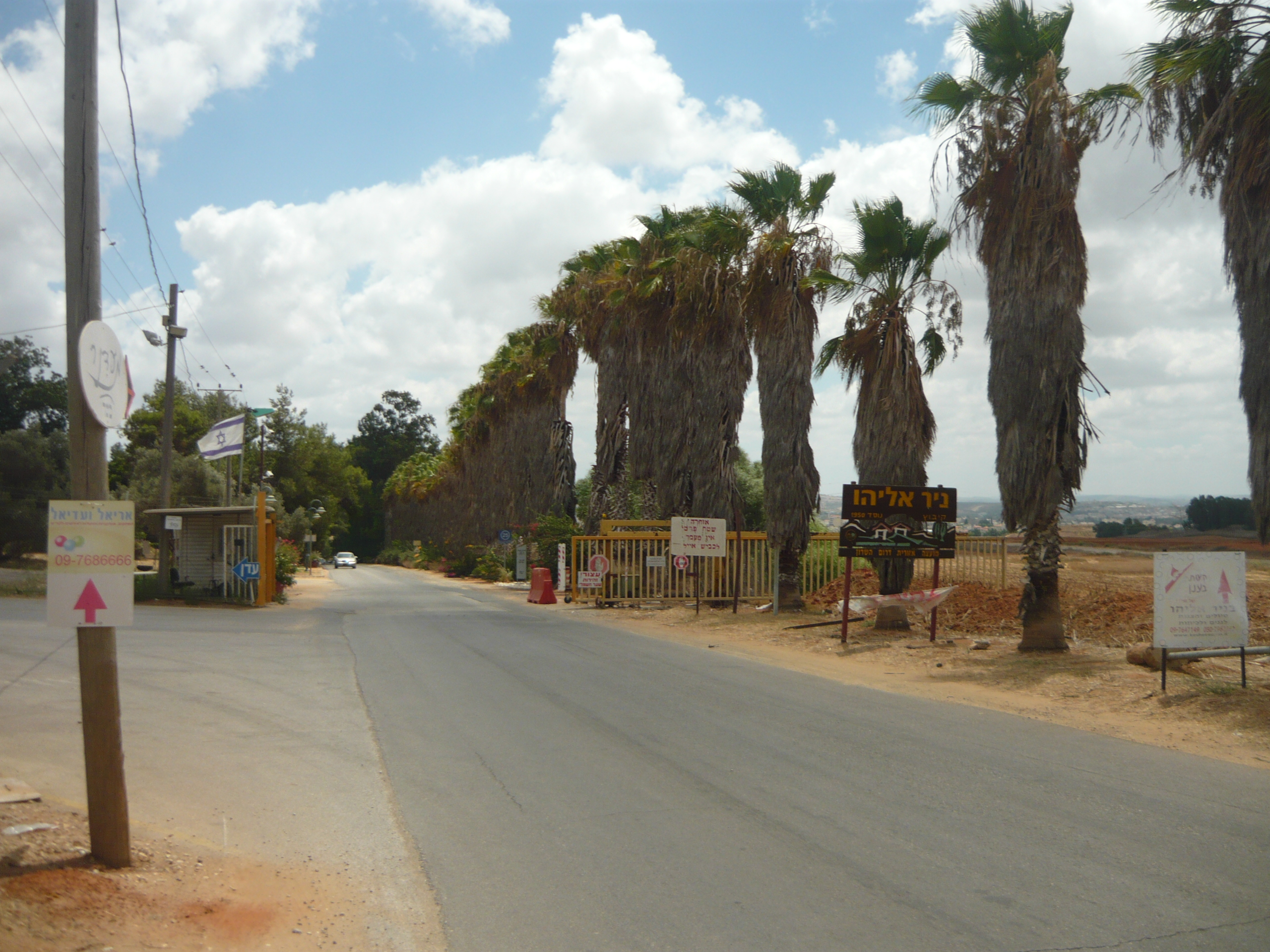 Nir Eliyahu הכניסה לניר אליהו